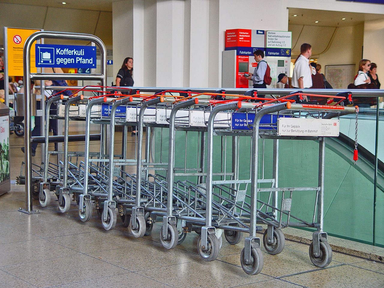 Baggage carts for rental in a German Train station